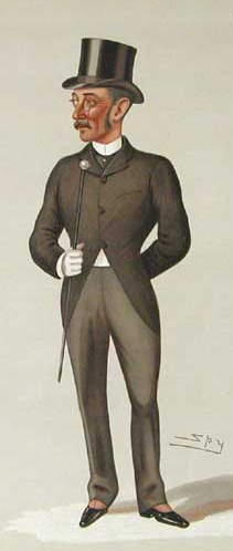 Caricature of Lawrence Dundas, Earl of Zetland. Caption reads "a gentleman".